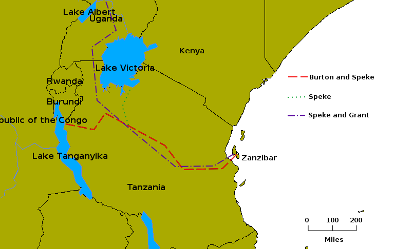 Routes taken by expeditions of Burton and Speke and Grant and Speke. Burton and Speke explored from the east coast as far as Tanganyika and then returned. Speke took a side journey to Lake Victoria on the return journey. Speke and Grant journeyed from the east coast and via Lake Victoria returned up the river Nile. Note that the country names and boundaries are the modern ones not the names of the time and the boundaries would, obviously, be uncertain at that point. Image produced by Richard G. Clegg using freely available map data and software.